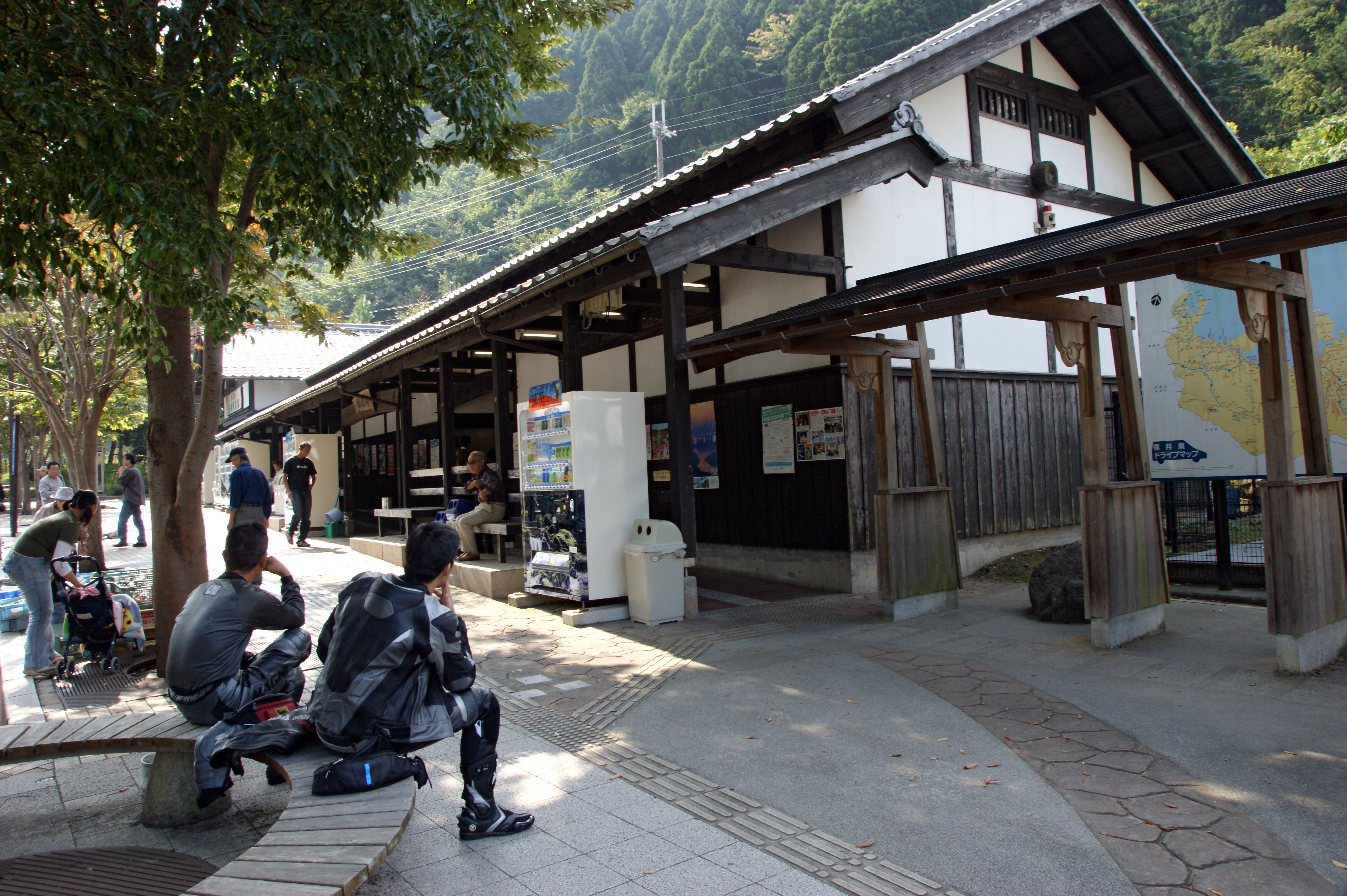 Michinoeki Wakasa Kumagawashuku in Wakasa Town, Fukui Prefecture, Japan